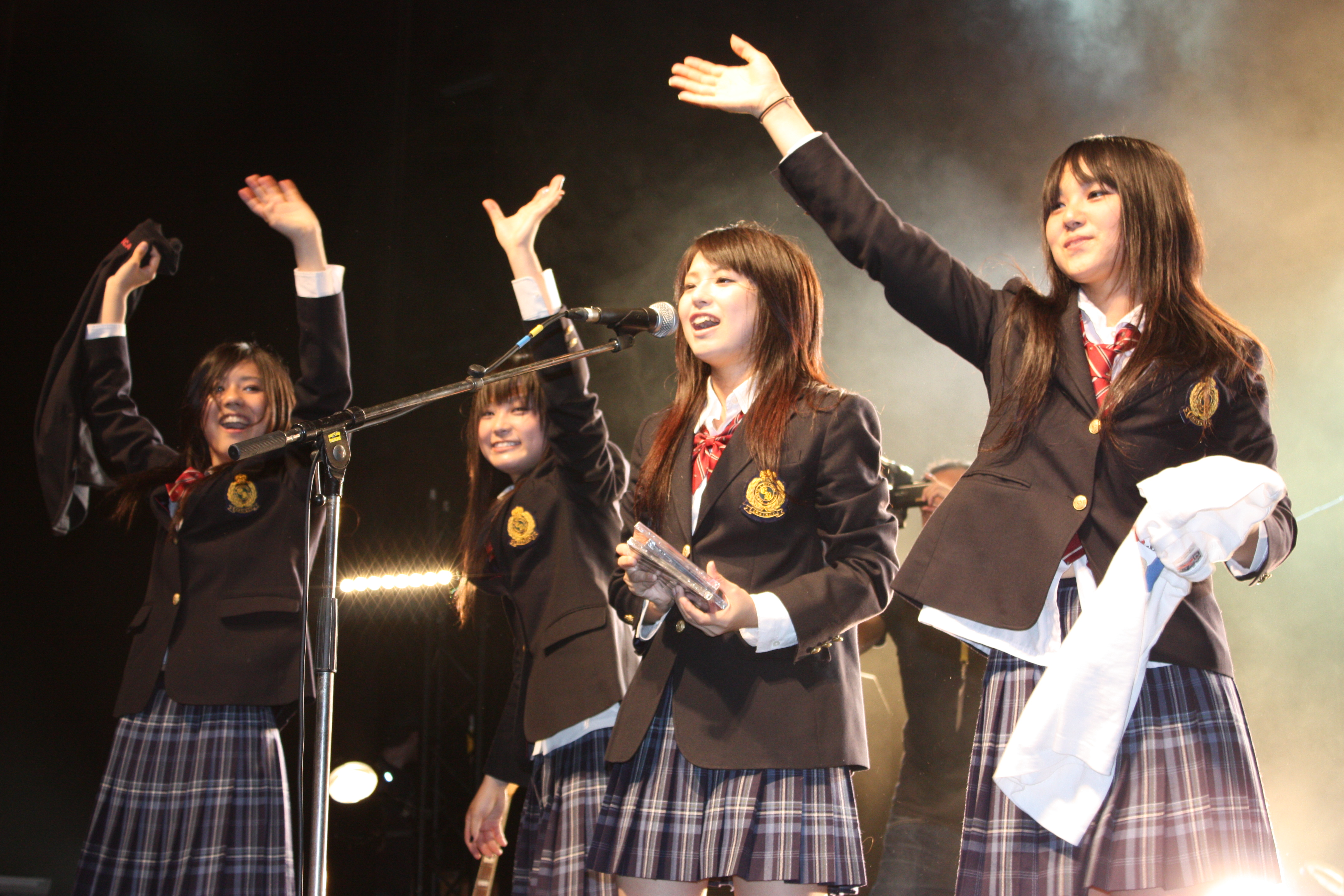 SCANDAL live at Japan Expo 2008 (Paris, France).